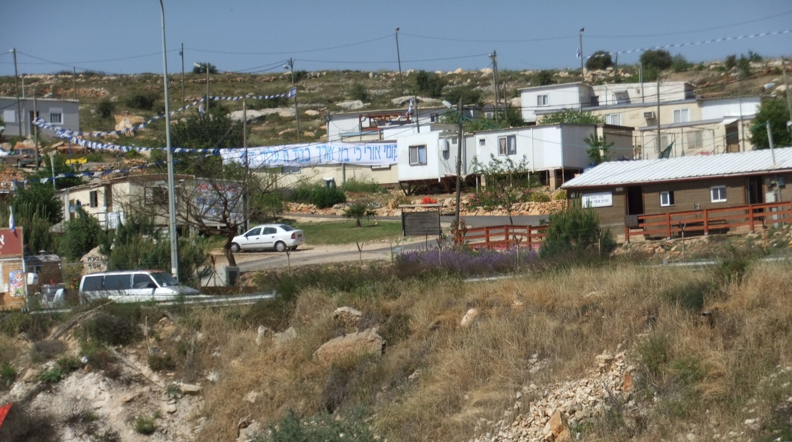 Givat Assaf decorated for Israel indepenence day. The sign is a verse from the prophet Isiah.